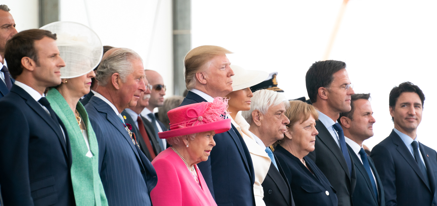 President Donald J. Trump and First Lady Melania Trump attend a D-Day National Commemorative Event with Her Majesty Queen Elizabeth II, the Prince of Wales, and other world leaders Wednesday, June 5, 2019, at the Southsea Common in Portsmouth, England. (Official White House Photo by Andrea Hanks)